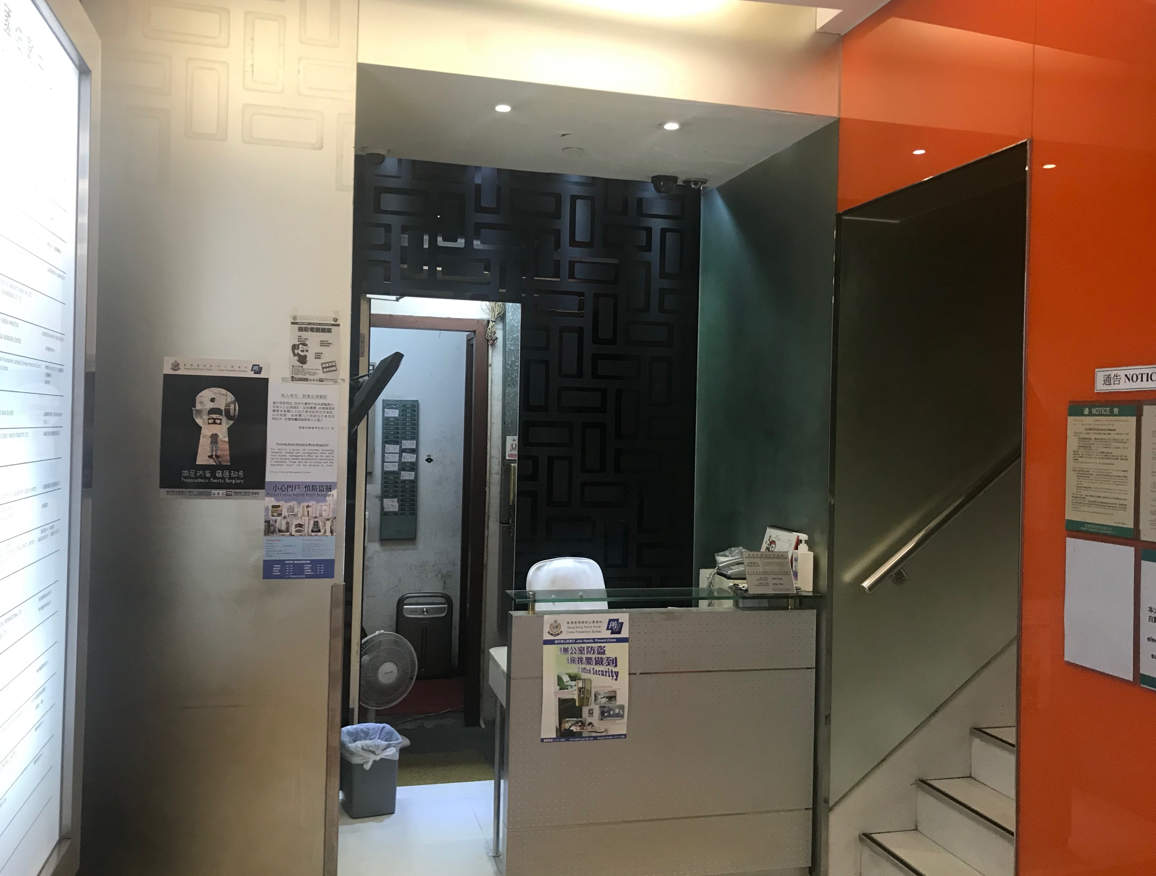 Lobby of Hon Kwok Jordan Centre